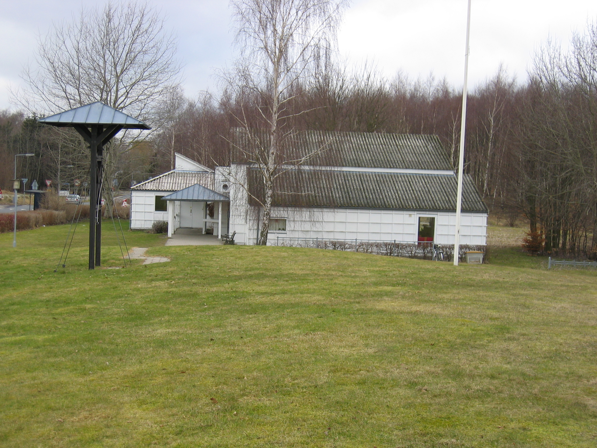 Grønnevang Church, Grønnevang Parish, Lynge-Frederiksborg Herred, Frederiksborg County, Denmark